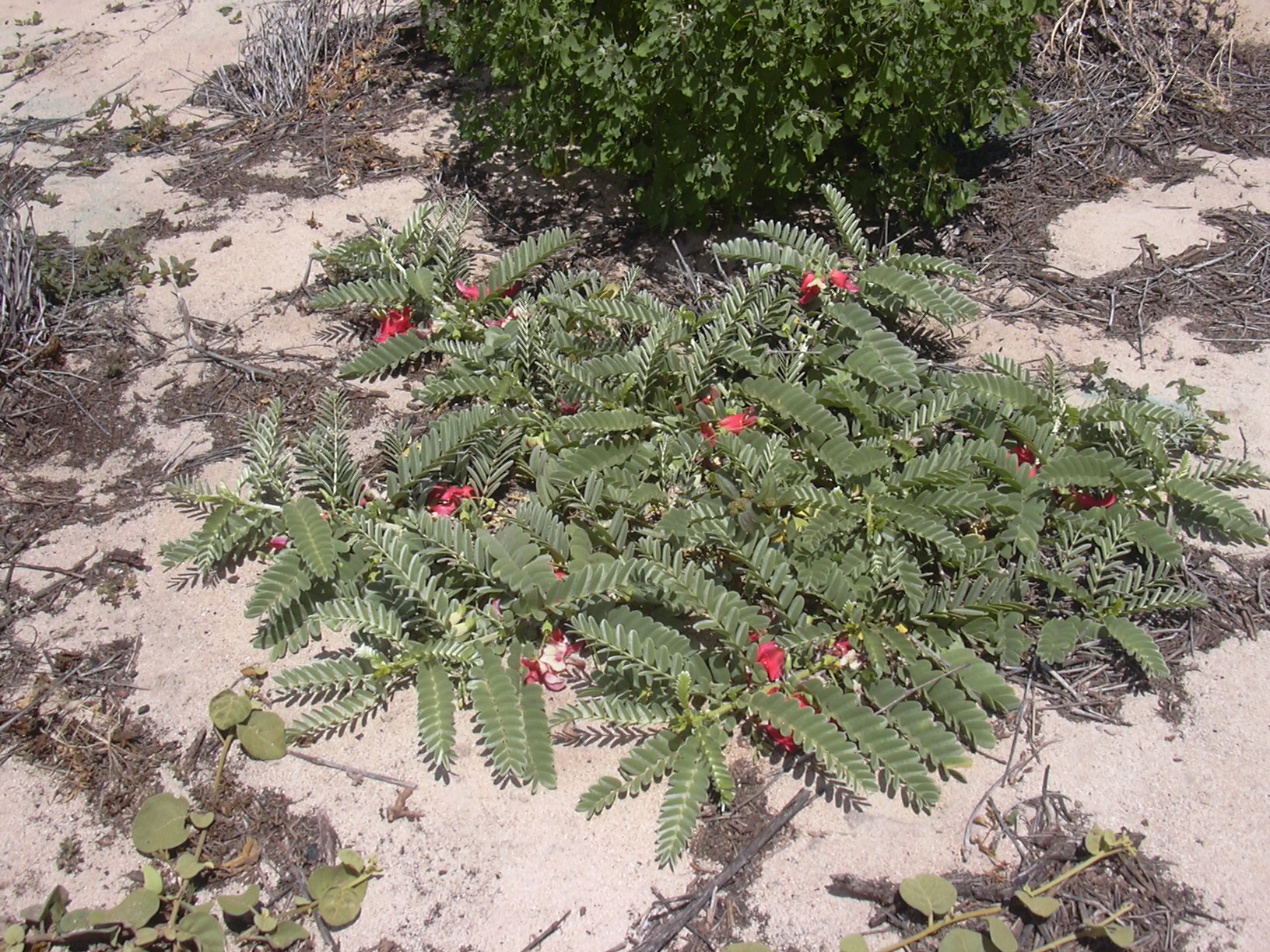 Sesbania tomentosa (habit). Location: Maui, Kanaha Beach